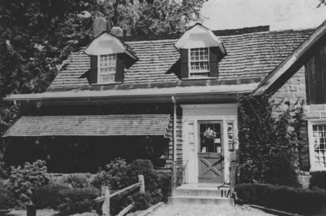 Capt. Thomas Blanch House, Norwood, New Jersey. This house was destroyed by fire.